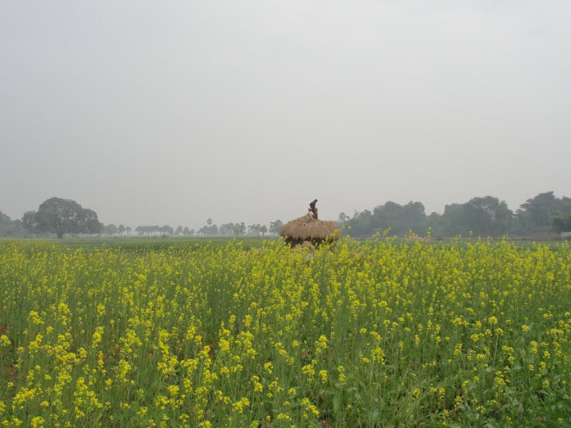 fields